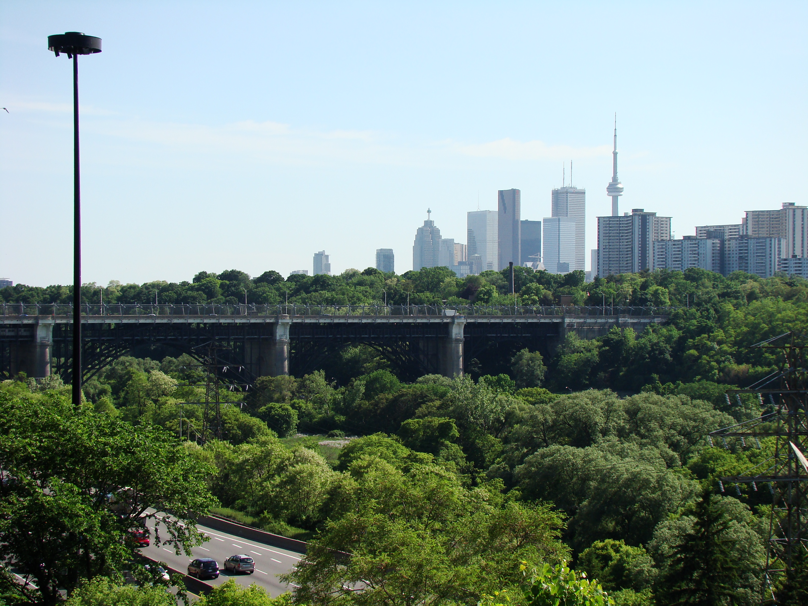 First proposed in the early 1910s and constructed in the late teens, the massive three arch viaduct was named in honour of Prince Edward on his visit in 1919. The bridge over Rosedale Valley was built in a similar style at the same time. From Parliament to Sherbourne, the valley was narrowed with an embankment to allow Bloor Street to be extended east to the new bridges. The builder fought long and hard to have the lower deck on the bridge. This saved the city millions when the Bloor-Danforth subway was constructed in ca. 1966